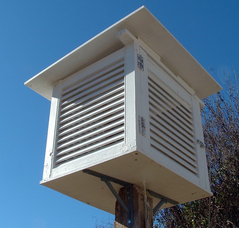 A home-made single louvered Stevenson screen.